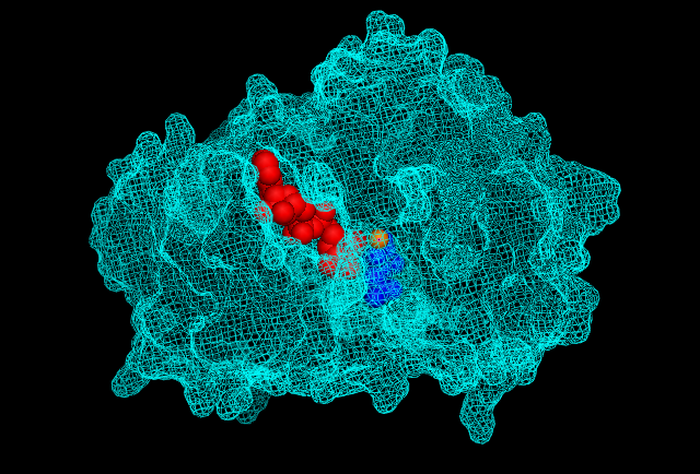 3-dehydroquinate synthase and its substrates Zn2+, carbaphosphonate, NAD+